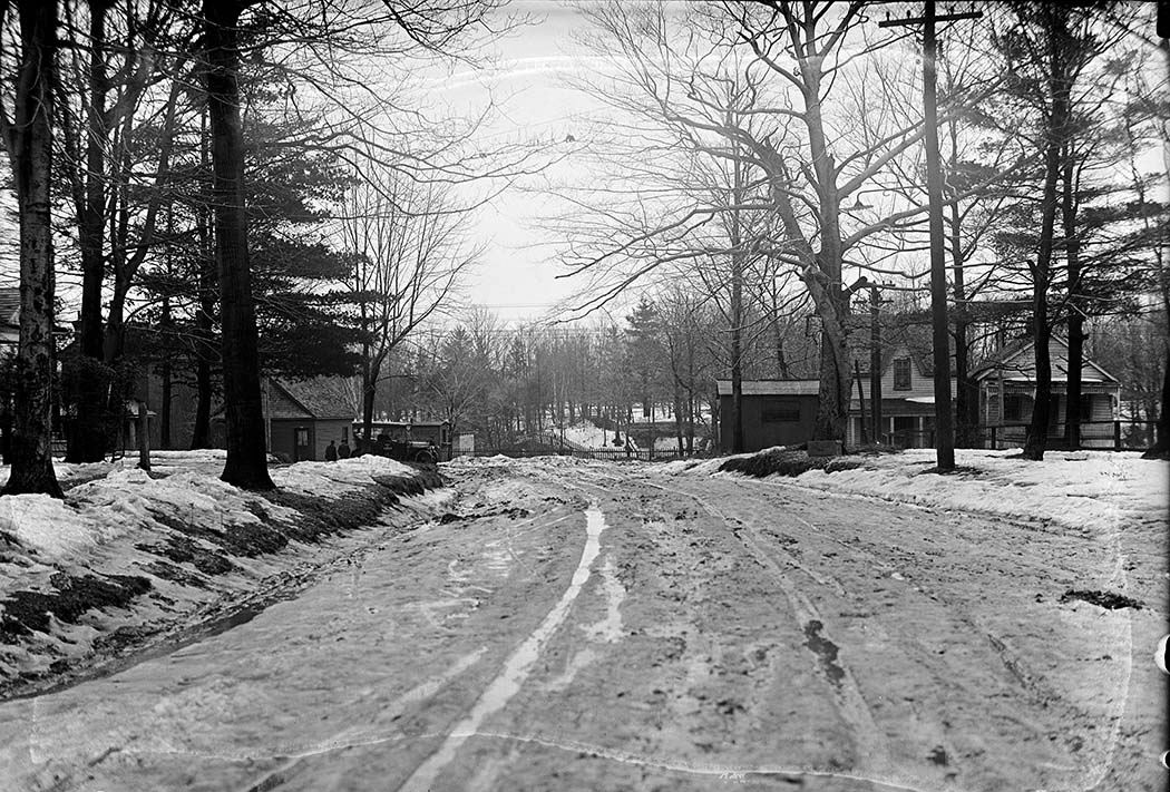 Mount Pleasant Road, looking south to Merton Street, Toronto, Canada. At the time of the photograph, this muddy road was named Alberta Crescent